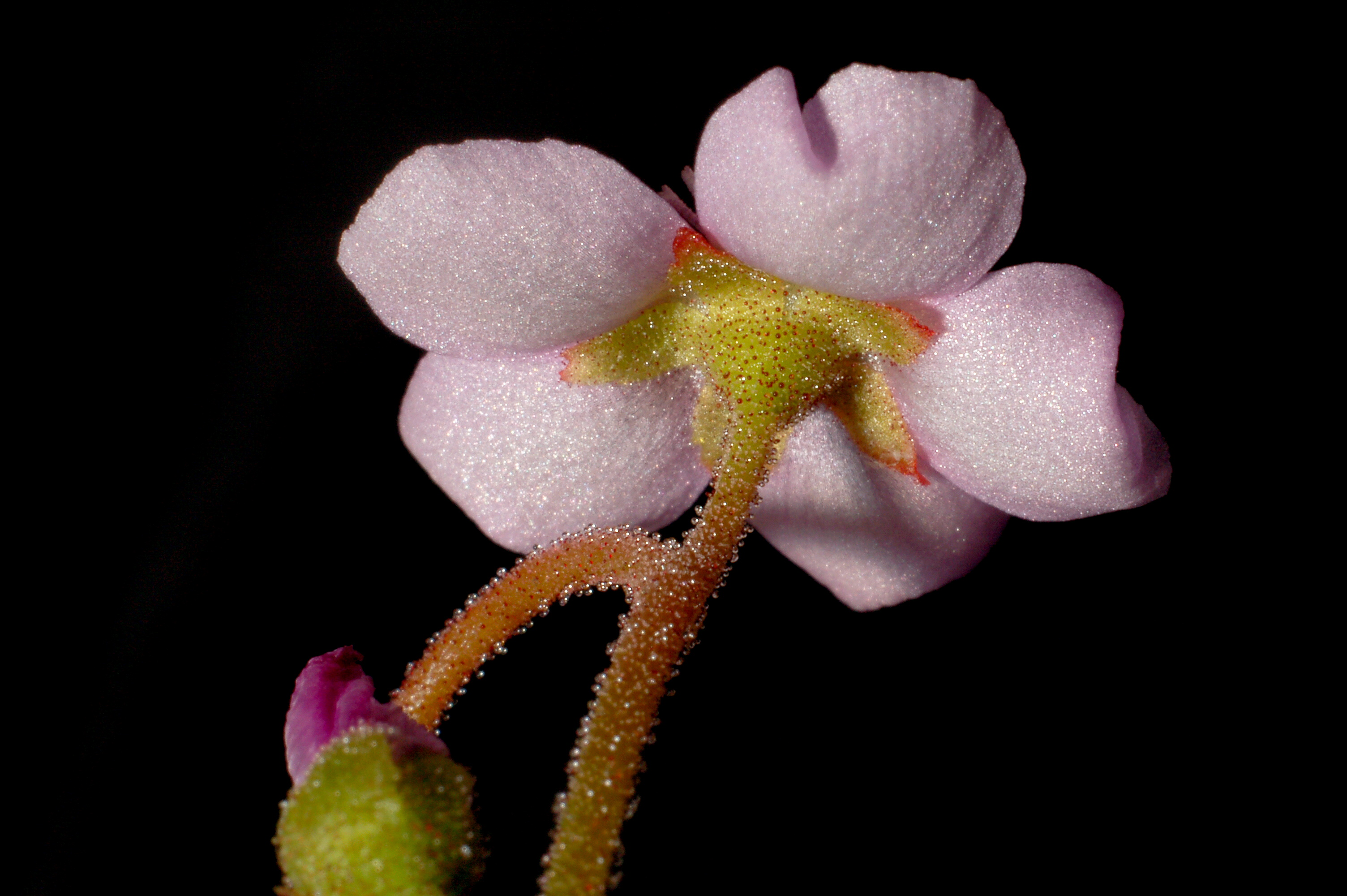 Drosera natalensis